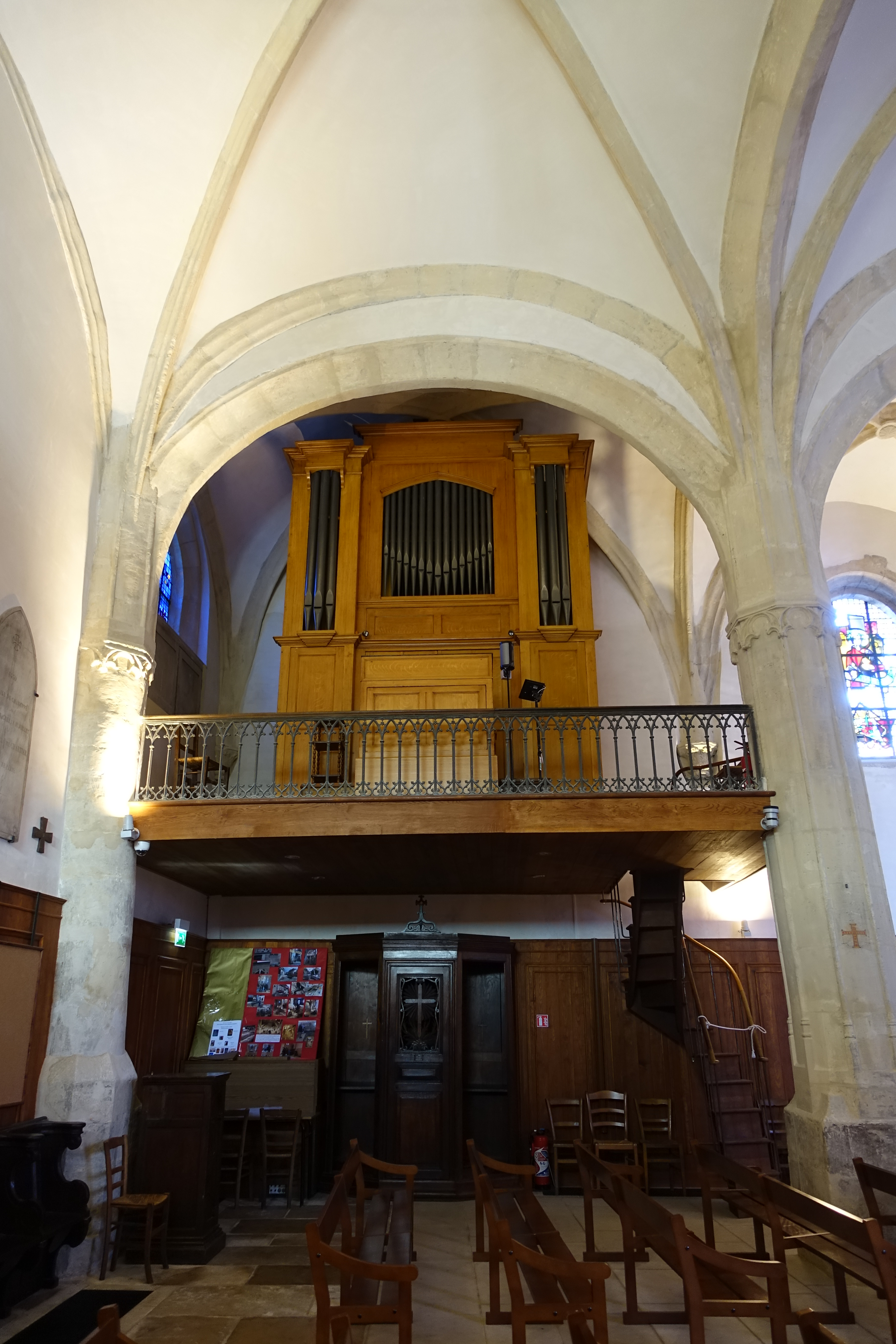 Eglise St Germain de Charonne, a Catholic church in Paris, France. Address: 4 Rue Saint-Blaise, 75020 Paris, France.